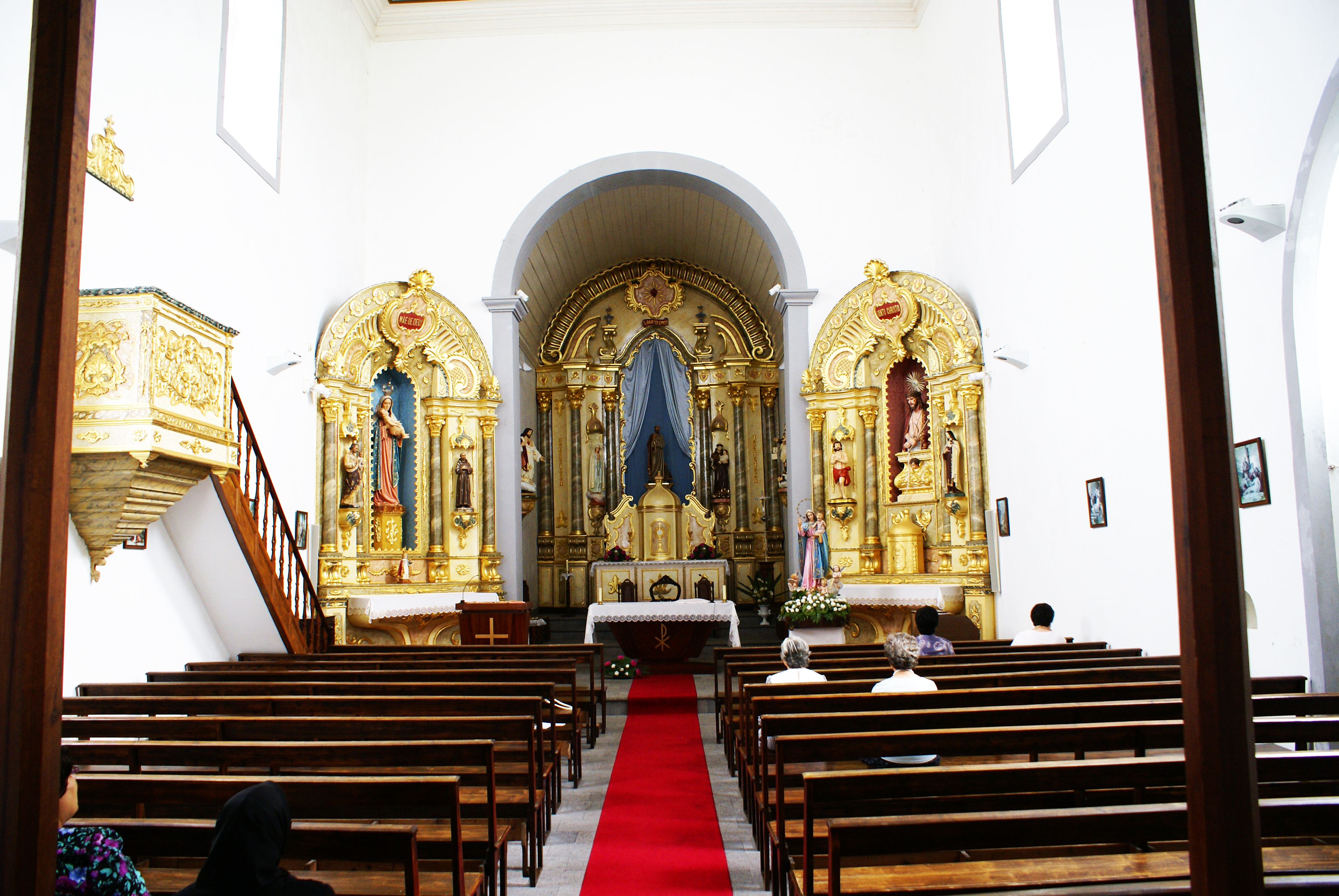 Nave of the Church of São Bartolomeu, Silveira, Lajes, Pico (Azores), Portugal